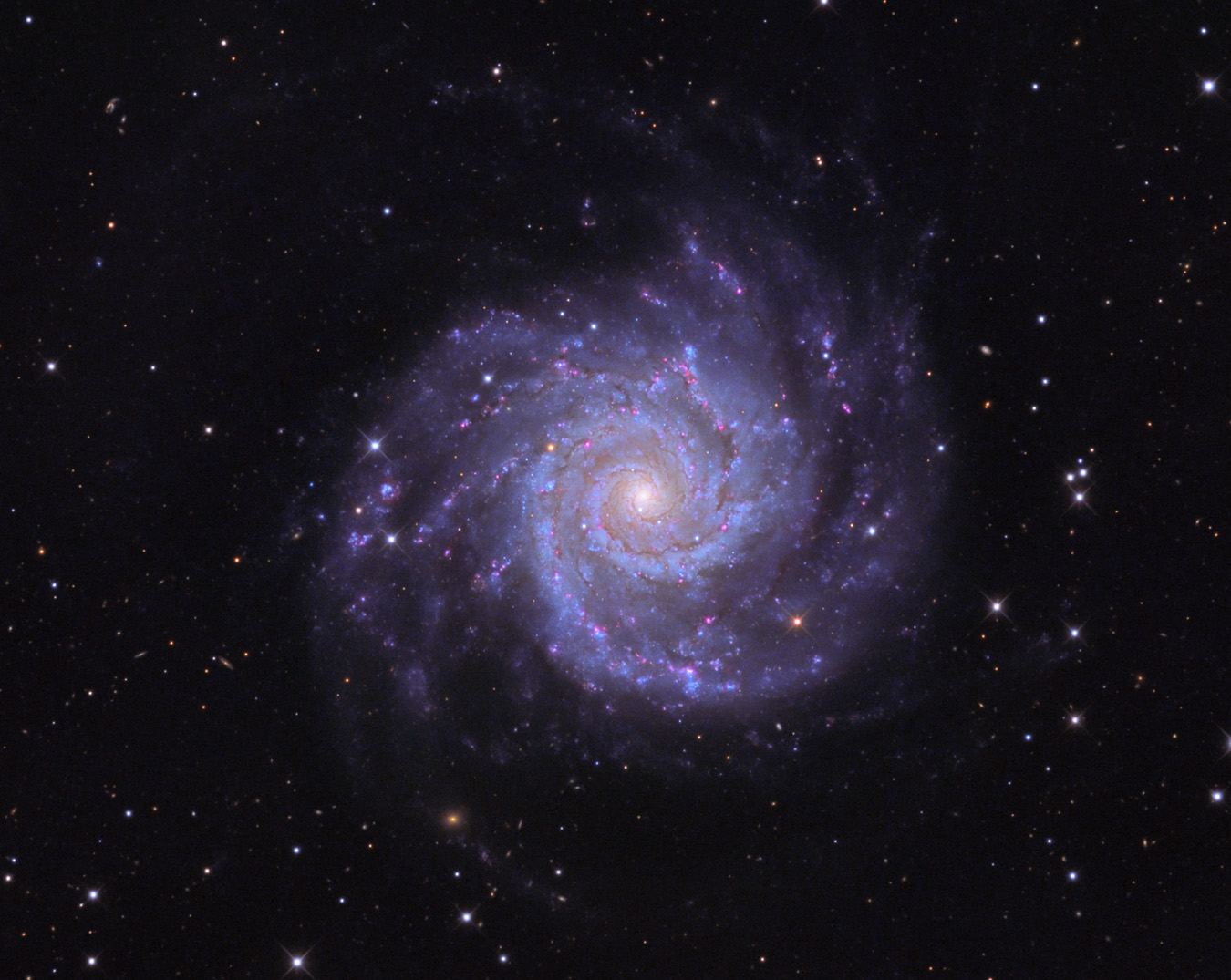 Deep exposures of Galaxies using the 0.8m Schulman Telescope at the Mount Lemmon SkyCenter Credit Line & Copyright Adam Block/Mount Lemmon SkyCenter/University of Arizona